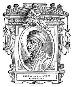 Illustratio from "Le Vite" by Giorgio Vasari, edition of 1568. For the artist portrayed see filename